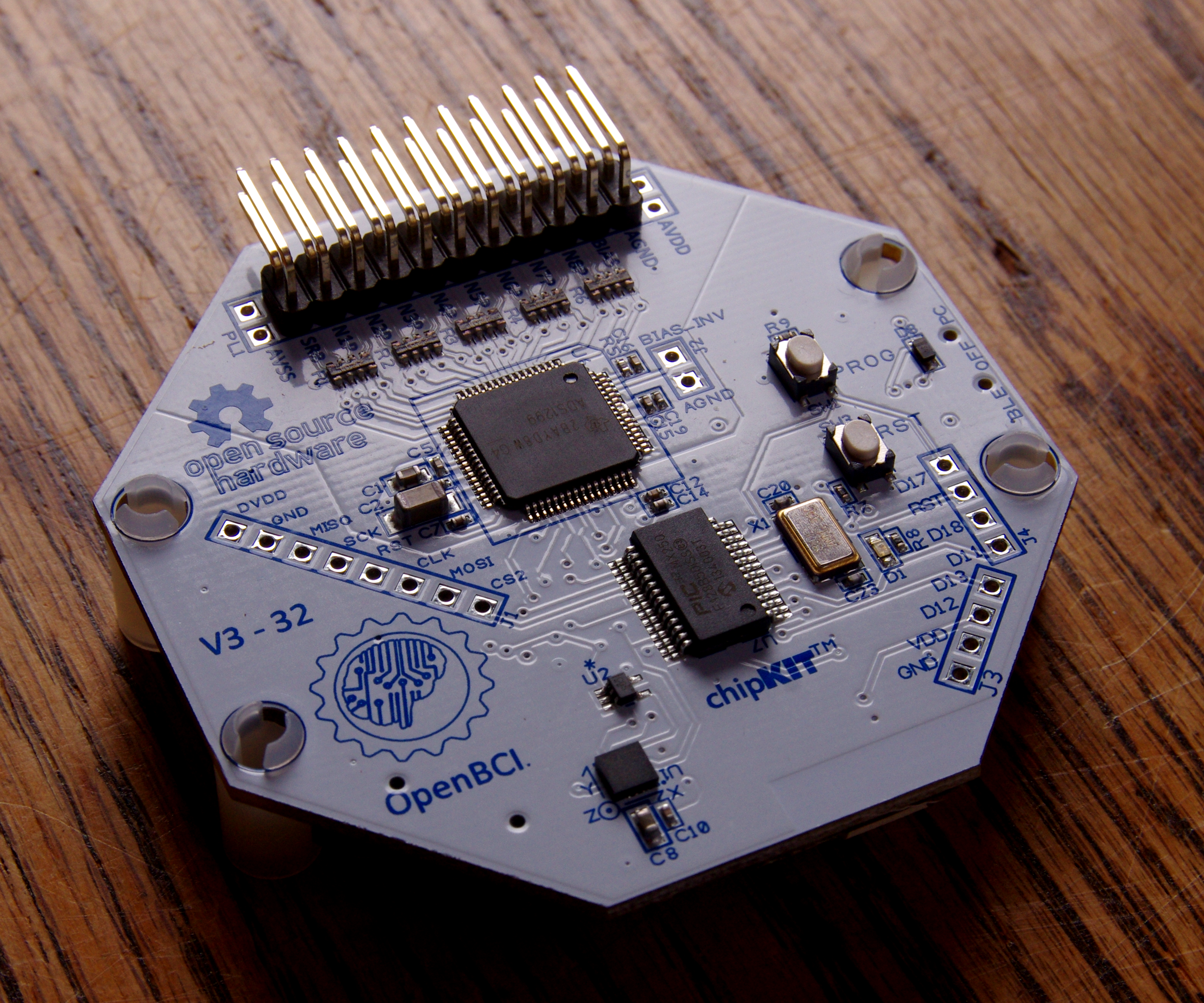 An OpenBCI board (open-source brain-computer interface. This is the 32bit ChipKIT version, from the first manufacturing run — sometimes called a v3 board.